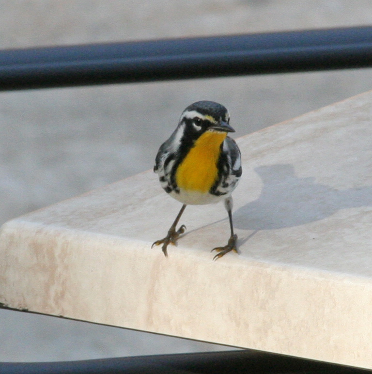 Yellow-throated Warbler in Cuba.